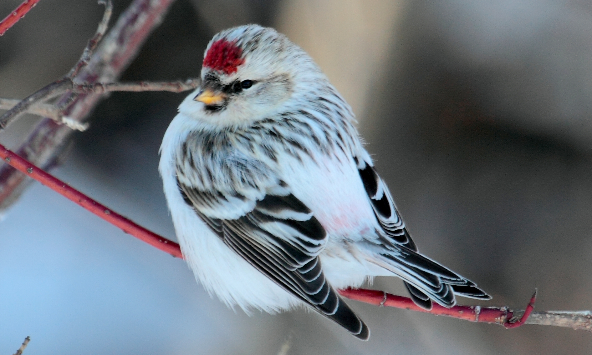 Arctic Redpoll, Cap Tourmente National Wildlife Area, Quebec, Canada.